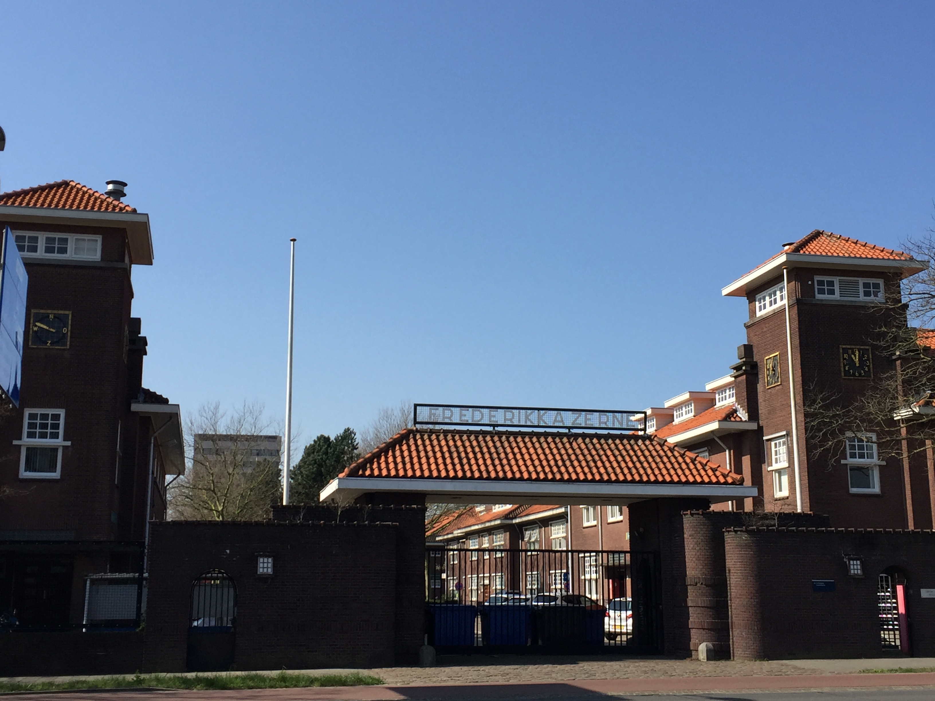 Entrance of Frederikkazerne (Frederik's barracks) in The Hague